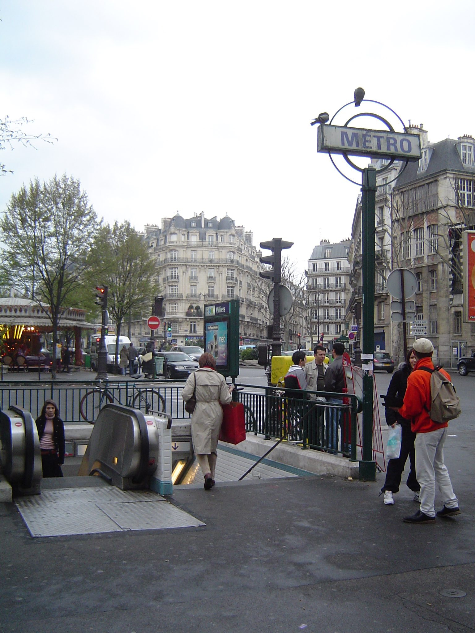 A picture of the parisian metro station "Villiers", taken saturday, april 15, 2006, on a cloudy day.